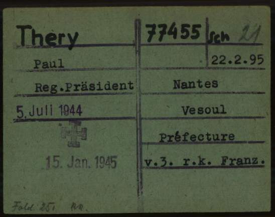 Registration card of Paul Théry as a prisoner at Dachau Nazi Concentration Camp. The stamped cross signals the day of his death.